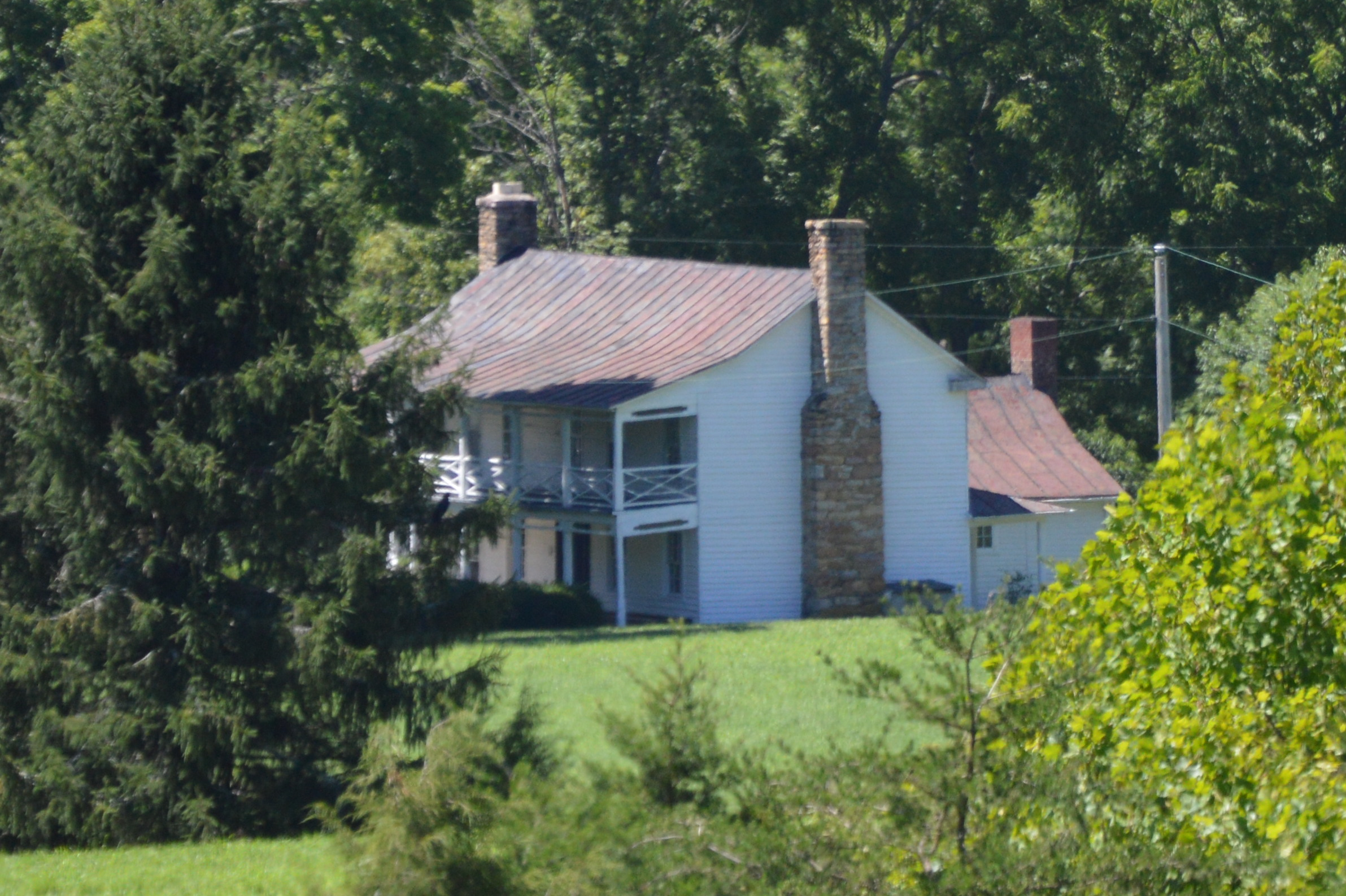 Distant roadside view of the Persinger House, located off Llama Drive southwest of Covington in Alleghany County, Virginia, United States. Built in 1757, it is listed on the National Register of Historic Places.